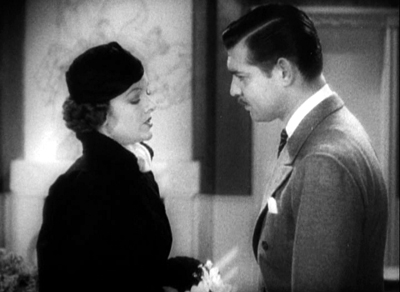 Clark Gable and Myrna Loy in the trailer for the film Wife vs. Secretary.